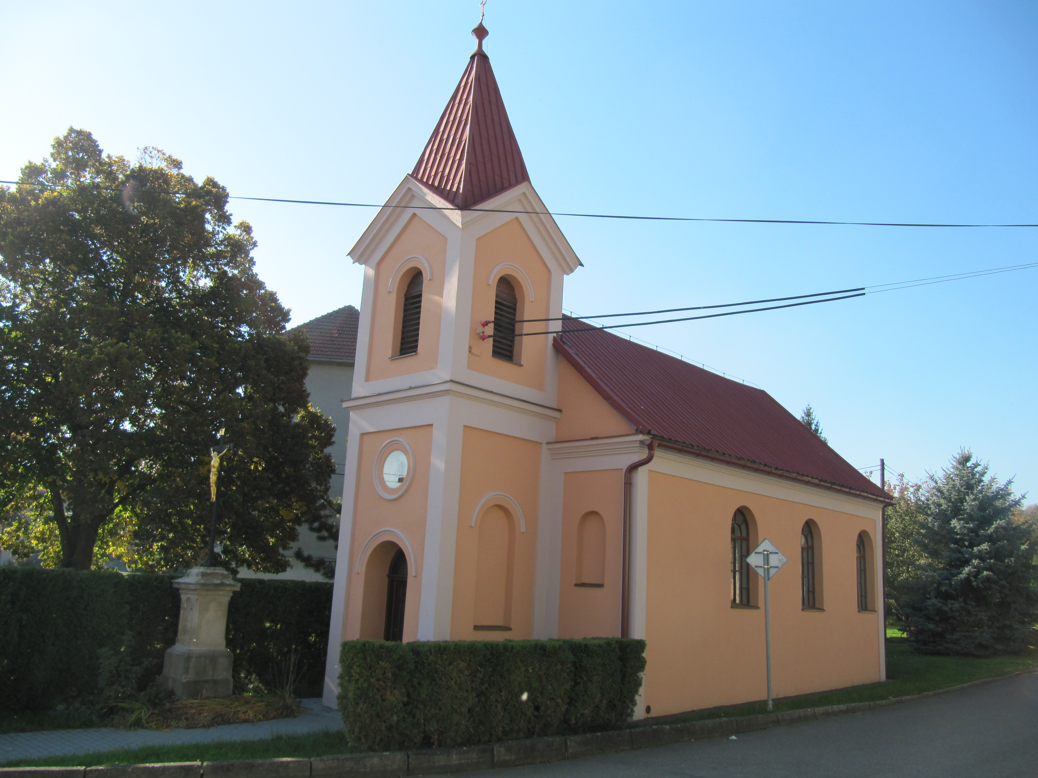 Nítkovice in Kroměříž District, Czech Republic. Chapel.